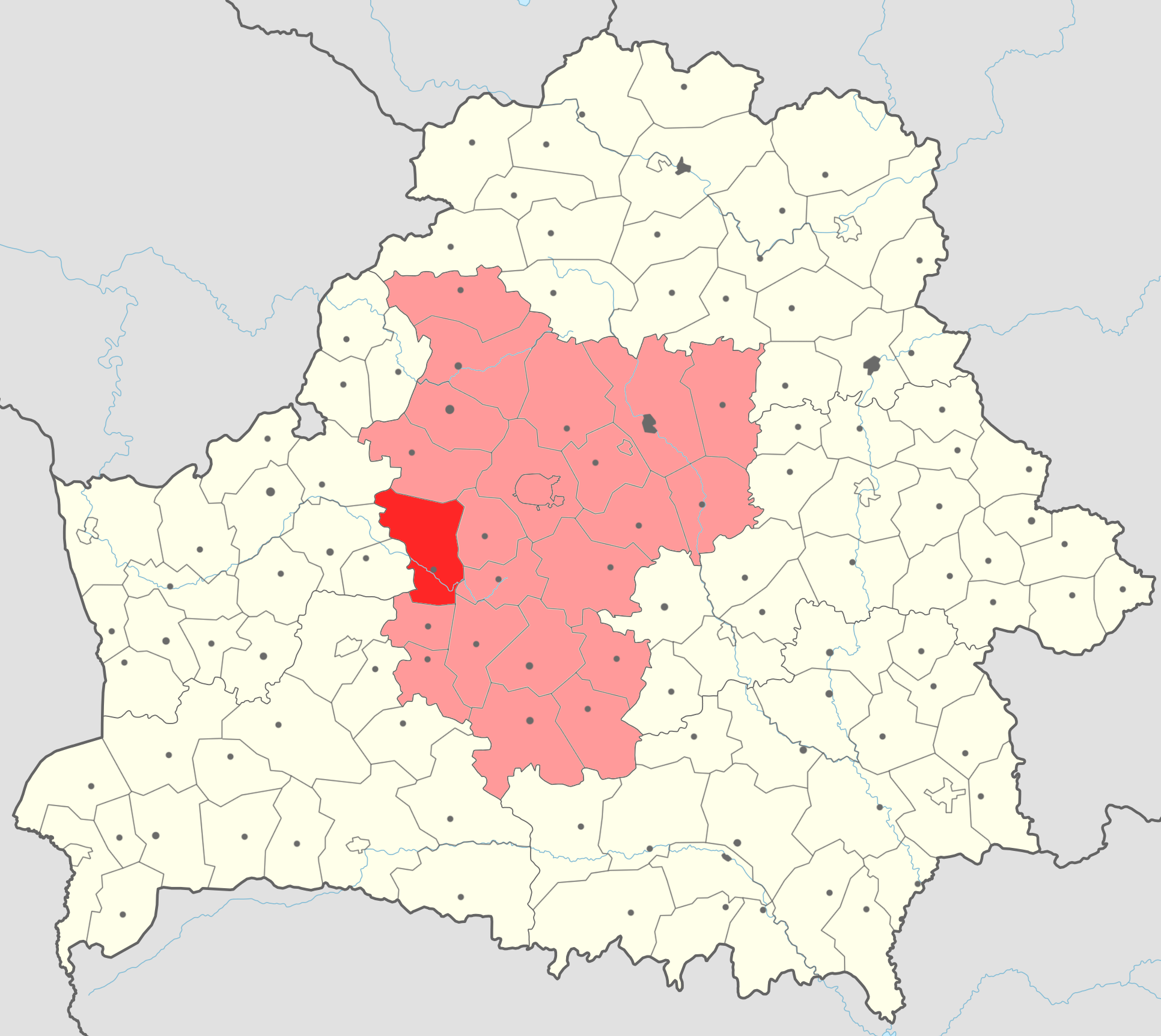 Map of Stoŭbcy rayon (in red) with Minsk voblast' (in light red) on the map of Belarus.